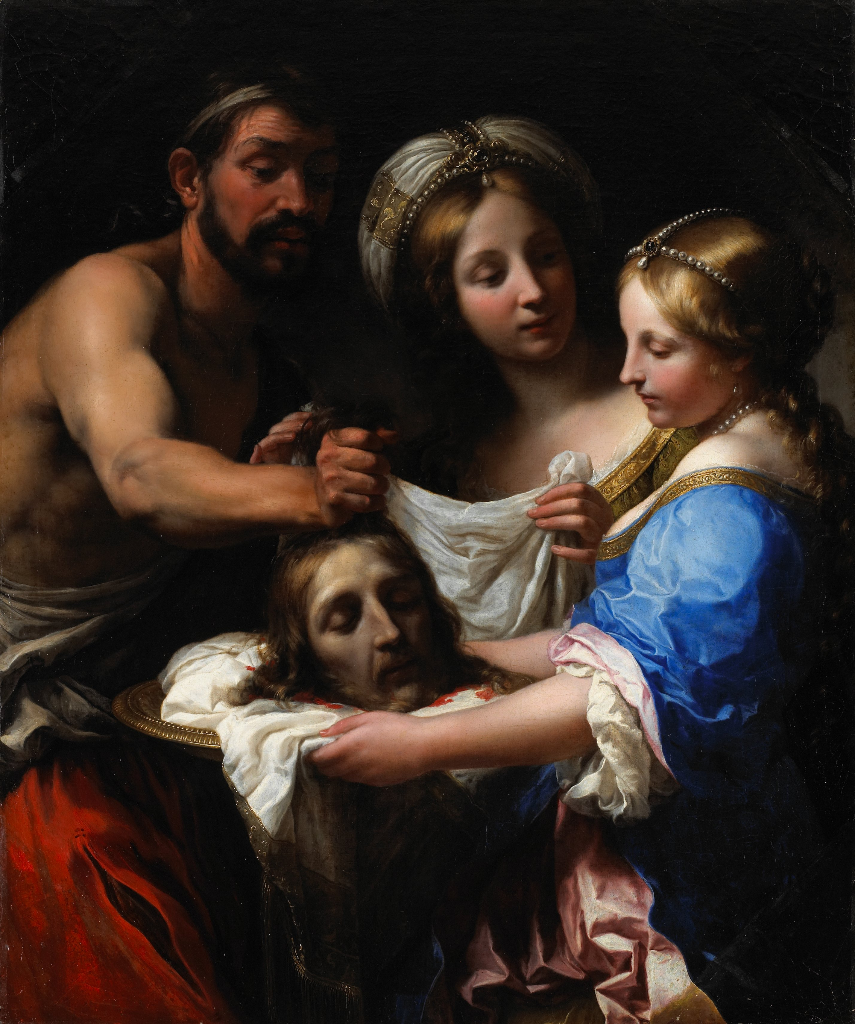 Salome with the head of John the Baptistlabel QS:Len,"Salome with the head of John the Baptist" label QS:Les,"Salomé con la cabeza del Bautista"